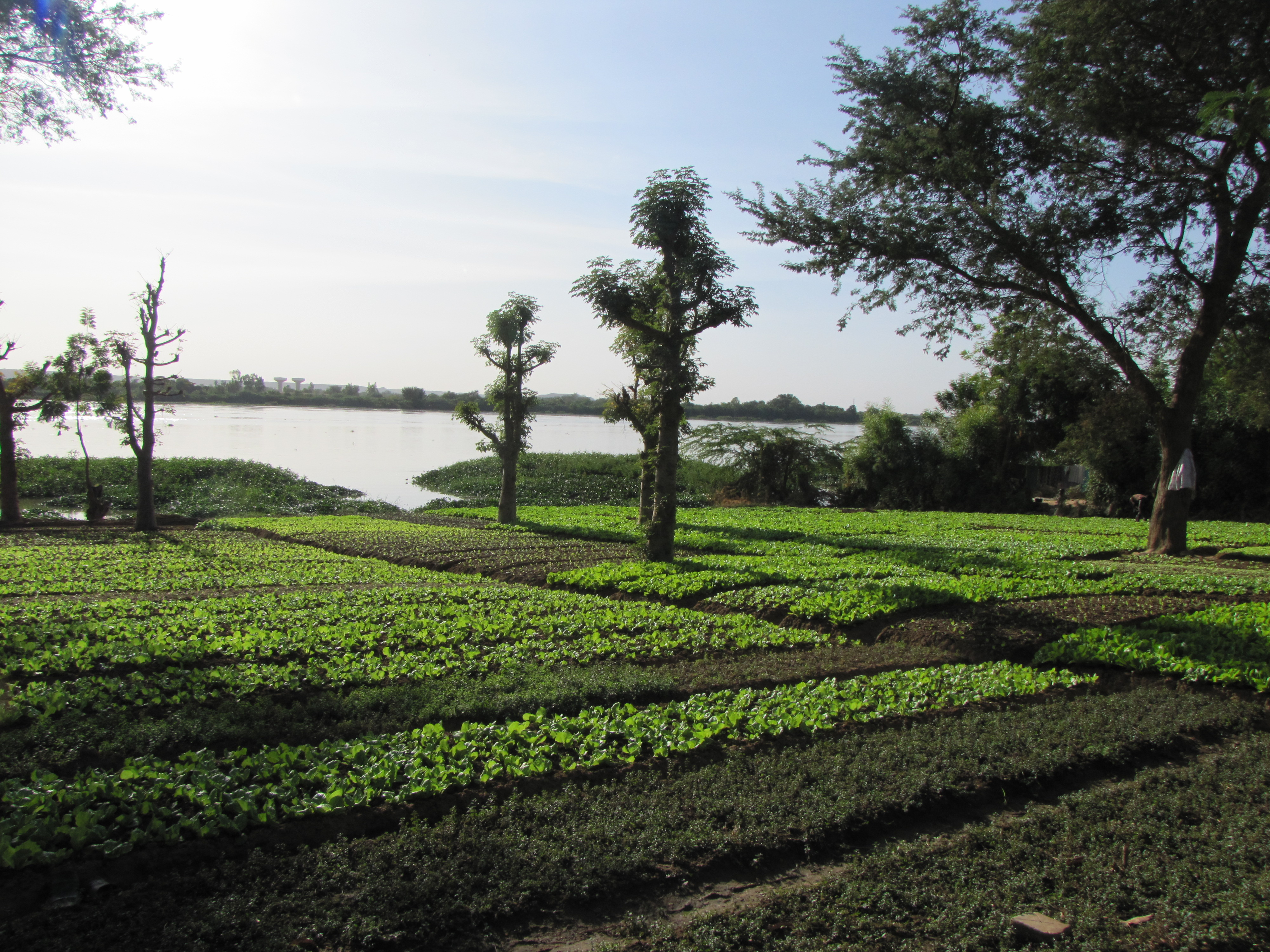 Vegetable Plot near the Niger River in Niamey ("Quartier Gamkalley")